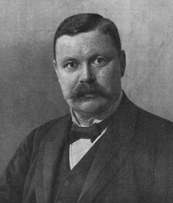 Åke Thomasson (1863-1929)